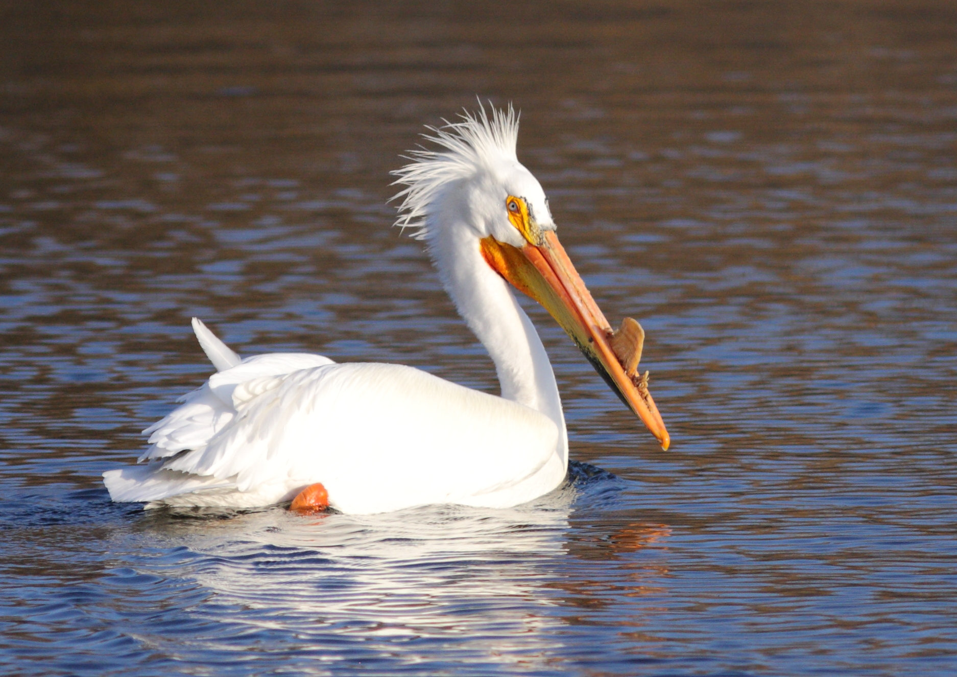 American White Pelican in breeding season at Bay Beach Wildlife Sanctuary, Green Bay, WI, USA